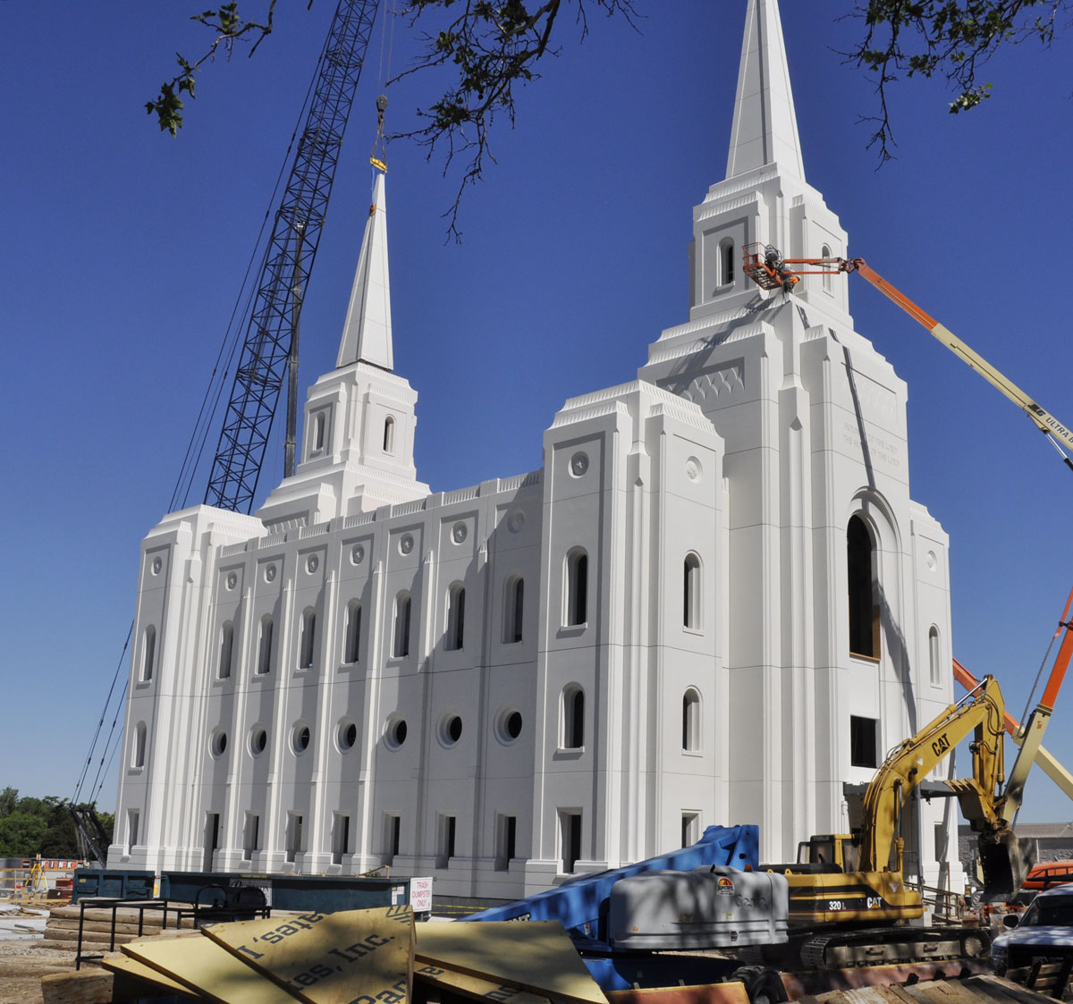 The Brigham City Utah Temple in late July 2011.